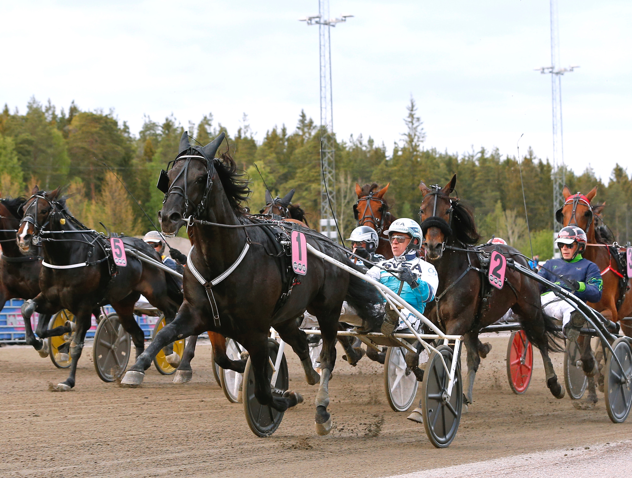 Sorbet and Örjan Kihlström winning H.K.H. Prins Daniels Lopp in Gävle, Sweden. 2019-05-18. In the background: Ringostarr Treb (2)